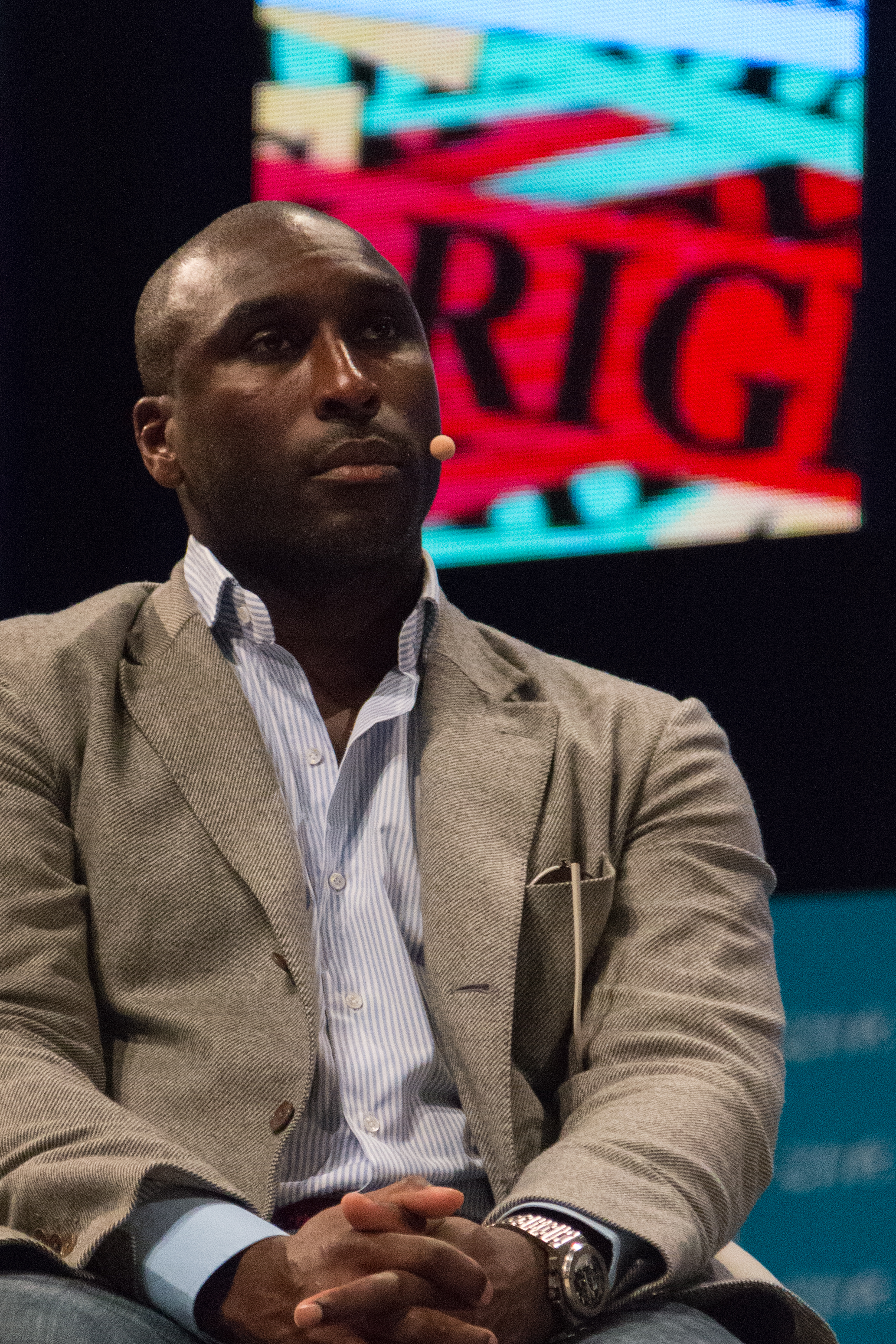 Sol Campbell at the 2014 One Young World Conference in Dublin, Ireland.